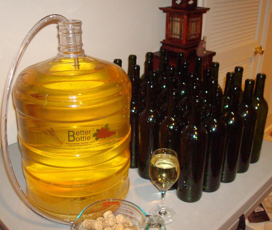 Home winemaking Trimmed version of the source file on Flickr